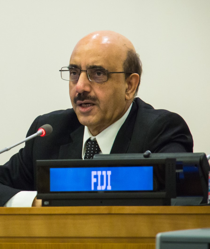 Ambassador Masood Khan of Pakistan speaks at UN Social Media Day, United Nations Headquarters, New York, Jan 30, 2015. Photo by John Gillespie